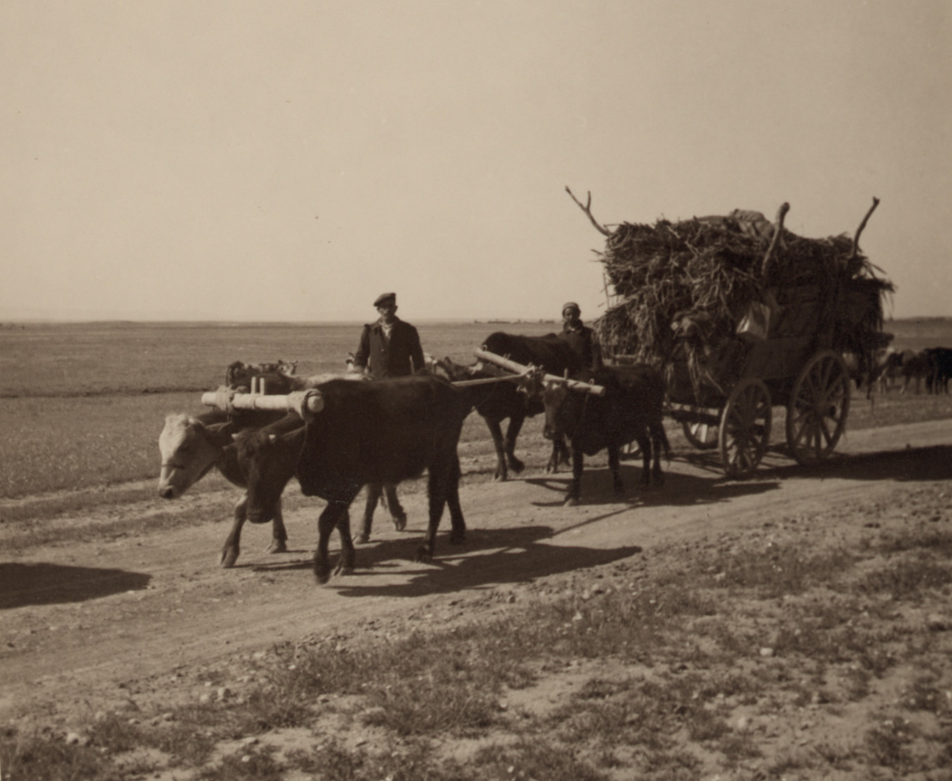 Iris trip to Syria, April 10-21. Jasiret el Arab. Steppe between Euphrates & Tigris. Assyrian refugees moving to new village. LC-DIG-ppmsca-17418-00026 (digital file from original on page 15, no. 2270)